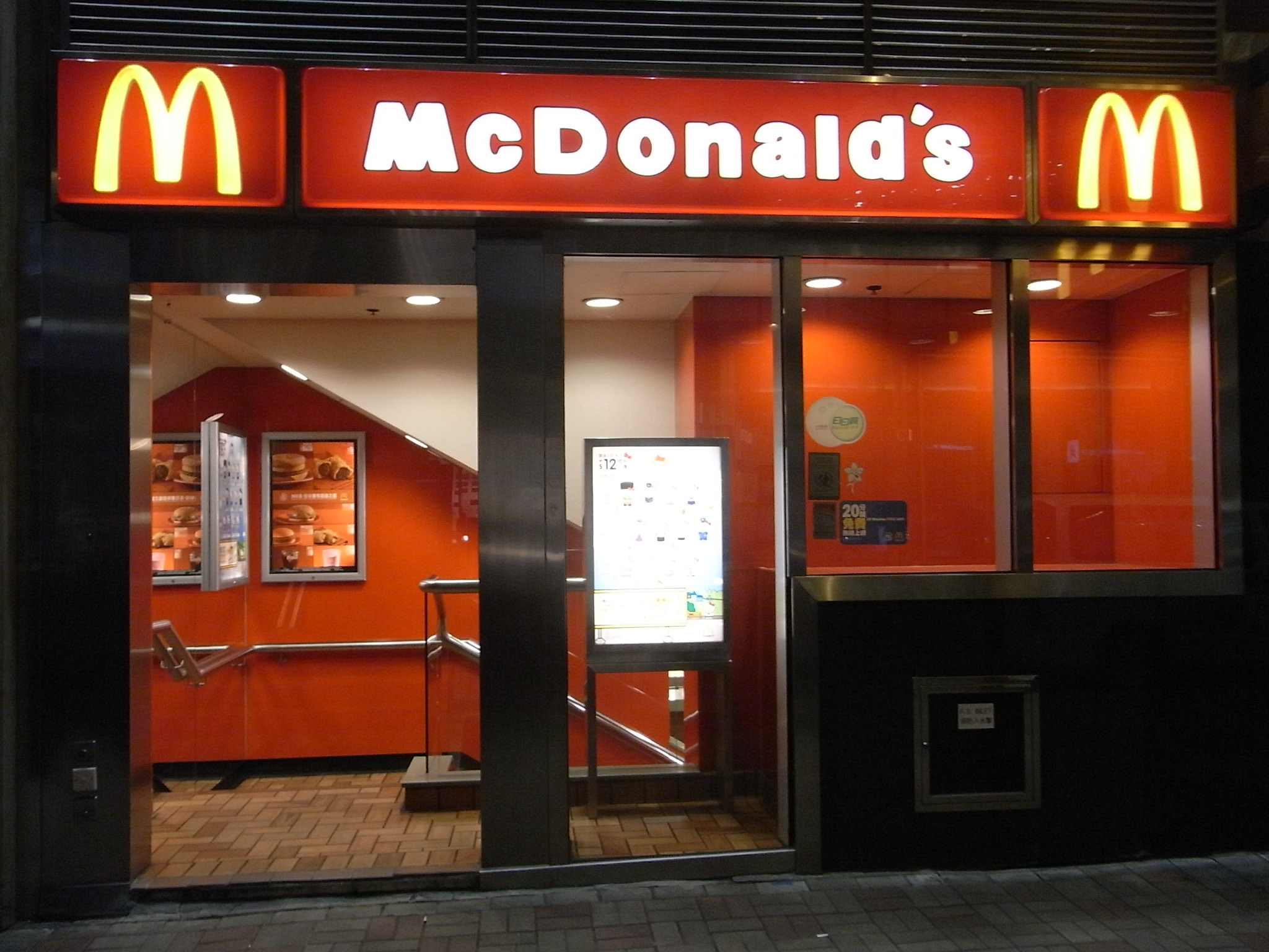 中環